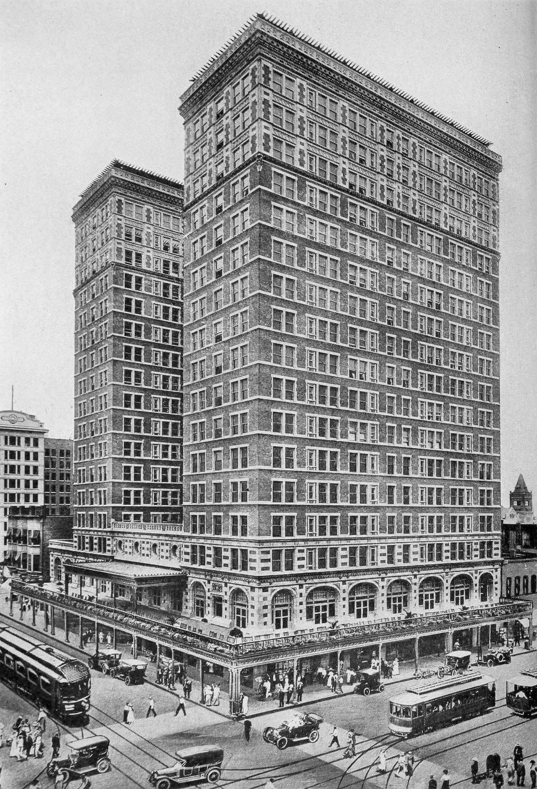 Rice Hotel, Houston, Texas. Title: Book of Texas Year: 1916 (1910s) Authors: Benedict, Harry Yandell, 1869-1937 Lomax, John A. (John Avery), 1867-1948 Subjects: Texas Texas -- Economic conditions Publisher: Garden City, N.Y. : Doubleday, Page Text Appearing Before Image: Courtesy of Eann and Kendall The Busch Building, Dallas The Amicable Insurance Build-ing—Wacos Skysckapek Text Appearing After Image: Courtesy of the Houston Chamber of Commerce Rice Hotel, Houston, Texas CHAPTER XIV THE MATERIAL WEALTH OF TEXAS If I rejoiced because my wealth was great,And because mine hand had gotten much;This also were an iniquity to be punished by the judges. —Job. IT IS the duty and the privilege of the remainder of thisbook to deal with the higher activities and the spiritualwealth of Texas, with human welfare and human prog-ress. Here it is our humbler task to summarize from theCensus the material results, measured in dollars, of the work-ing of the people of Texas with the land upon which theylive. The Census summary is very incomplete. It takesno account of the strength or the weakness of the people,of the smiles of children and the good deeds of men, of sum-mer breeze and bright sunshine, of the fishes in the sea andof most of the minerals in the earth, of the coming rains andof future crops. It includes only some of those tangiblethings that men are accustomed to measure in dollars. In